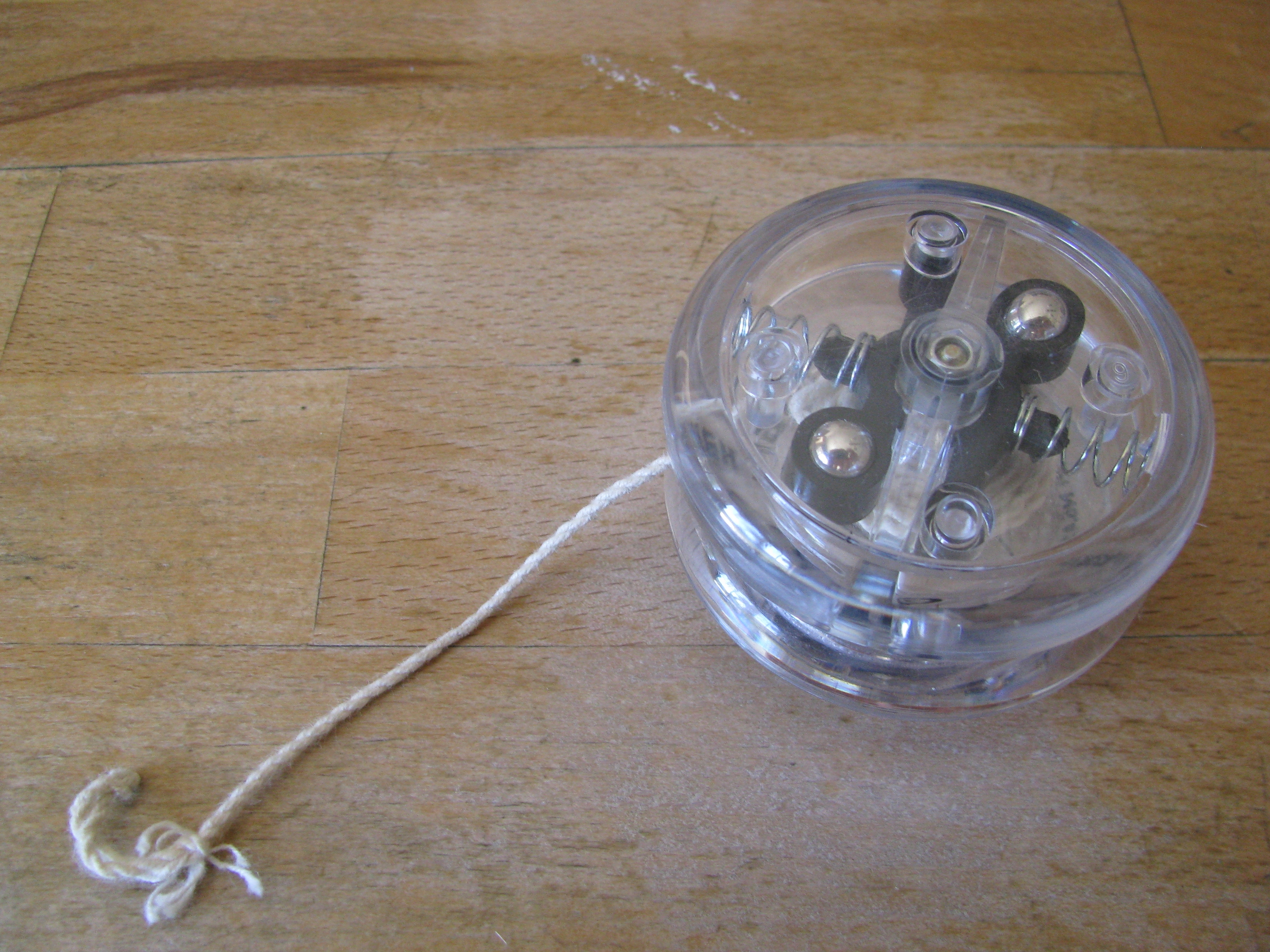 Yome Brain : The yo-yo which has a clutch which make it return to yoyoer's hand automatically when it slow down after sleeping.